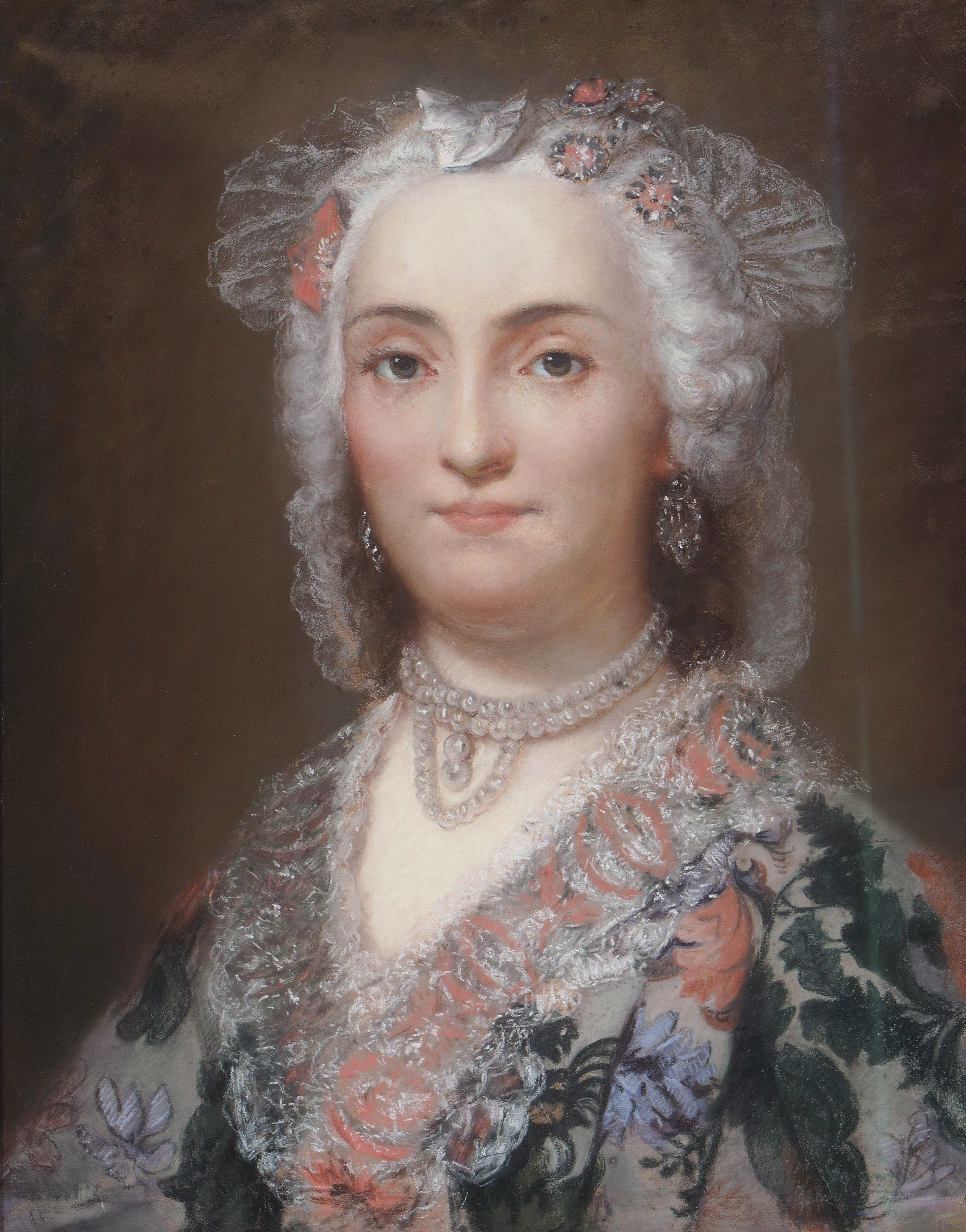 Frau Johann Alexander Thiele, née Dorothea Sophia Schumann, Frau Axt (1718-1777) pastel 52 x 40.8 cm copy of Mengs portrait of Dorothea Schumann, in the Dresden Museum, inventory number P168 [1]